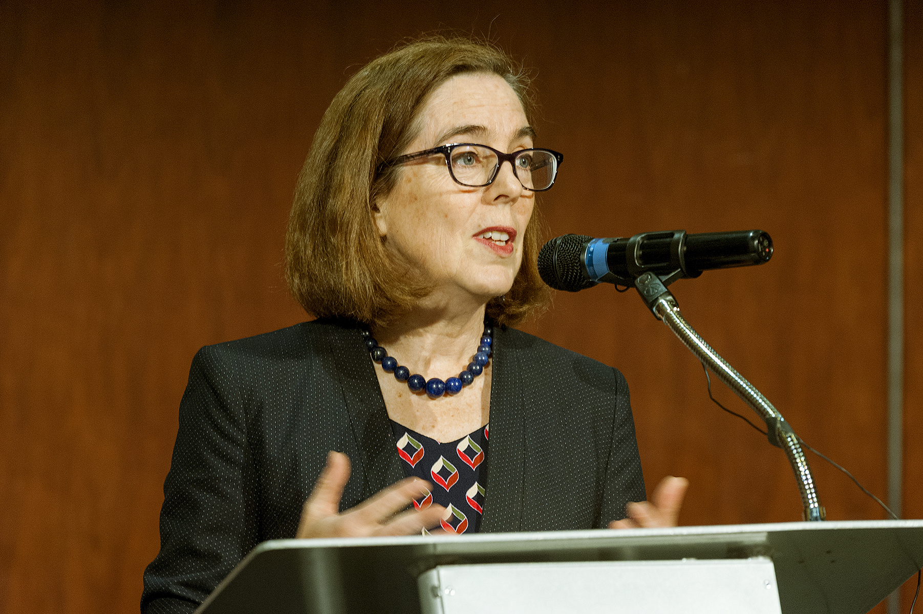 Gov. Brown gives welcome address